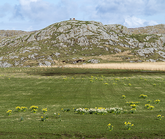 Farmland near Gallanach